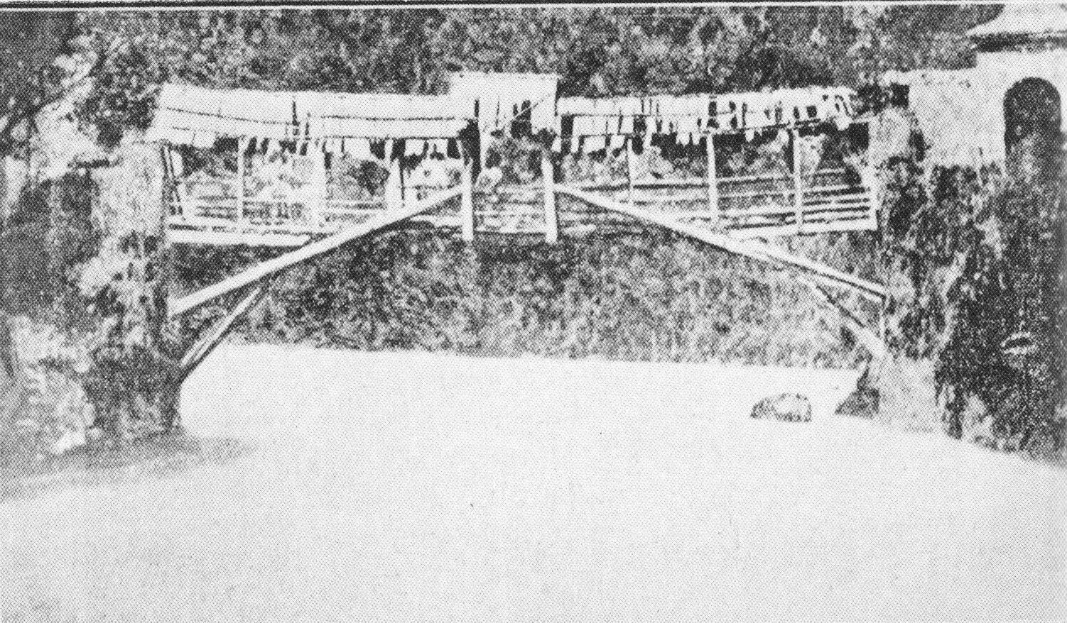 Old Wooden Bridge of Cividate Camuno, Val Camonica (until 1871)